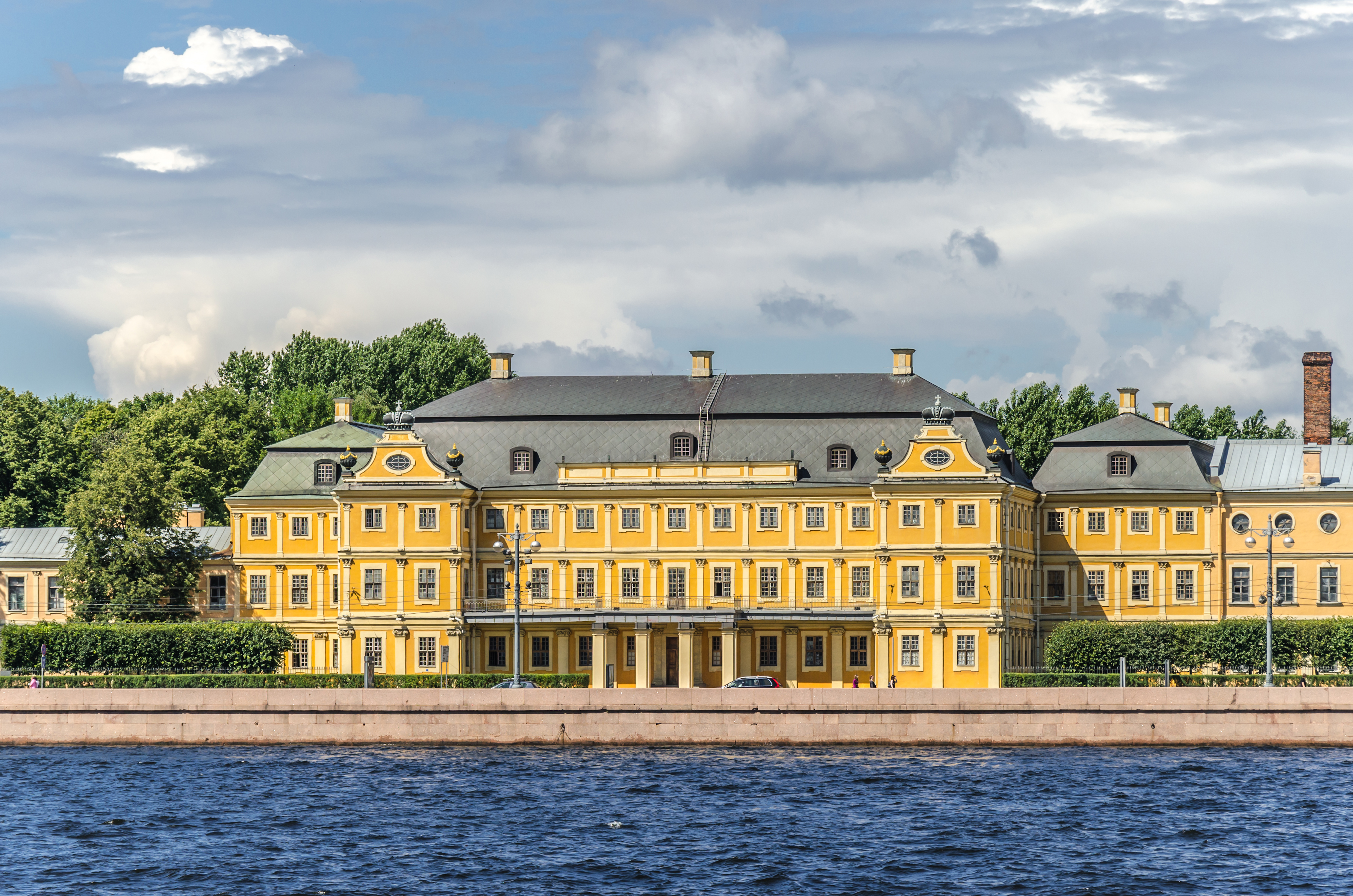 Menshikov palace in Saint Petersburg